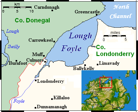 Lough Foyle - location in Ulster